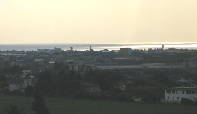 Panoramic view of Pontecagnano and its littoral from the hills of Faiano